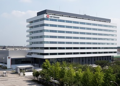 UD Trucks headquarters building